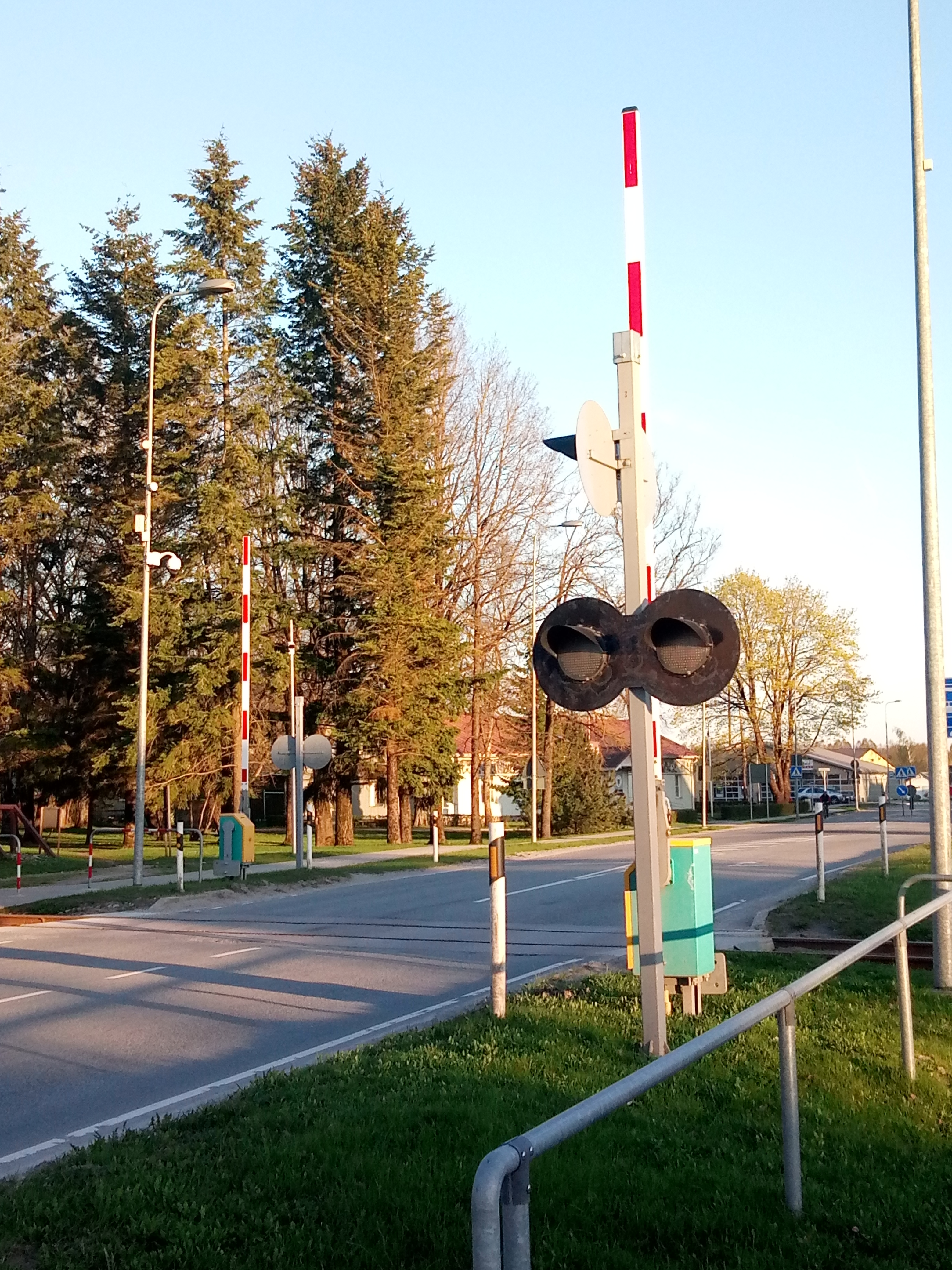 Inactive and gated railroad crossing in Türi, Estonia.